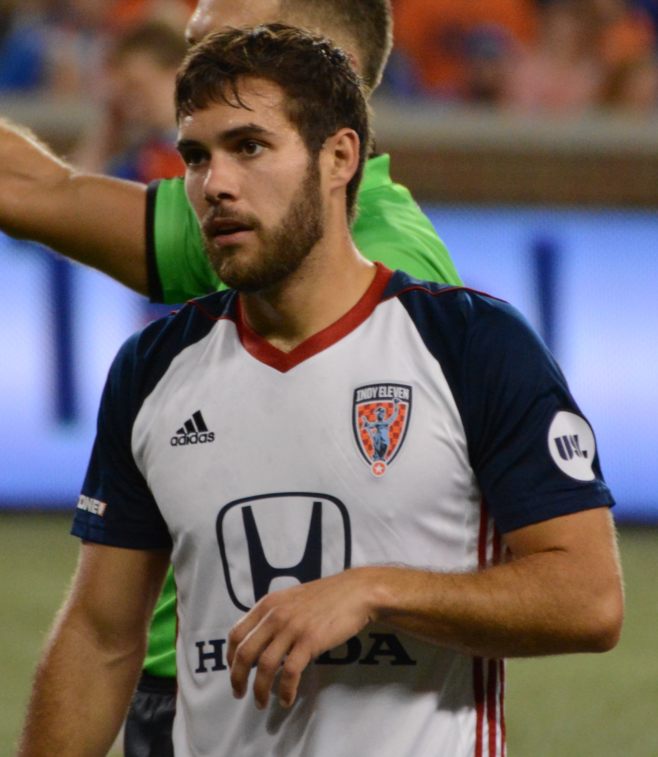 Taken during a USL regular season match between FC Cincinnati and Indy Eleven at Nippert Stadium in Cincinnati, USA on September 29, 2018.